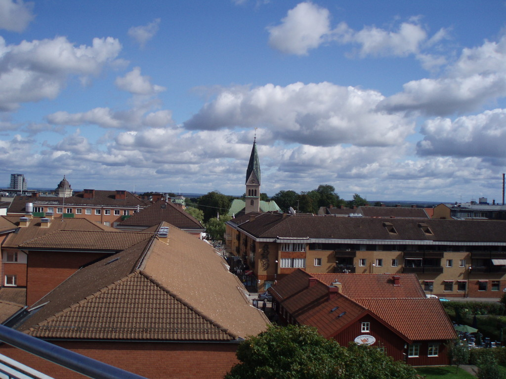 View of Skövde (Sweden) from the City Hall of the town.